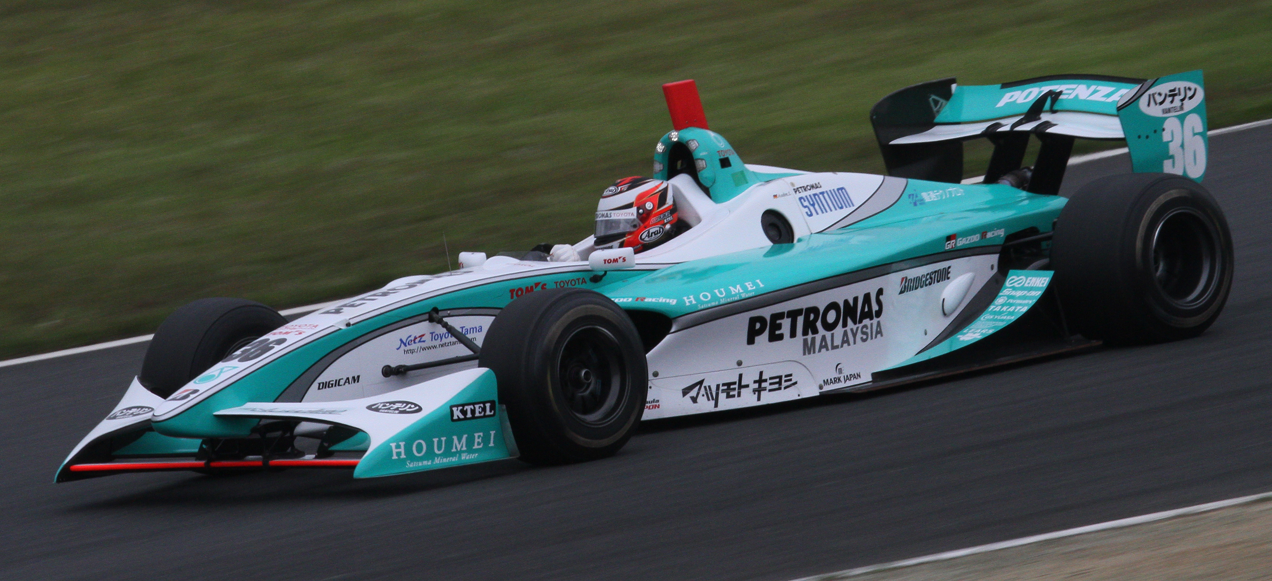 Formula Nippon 2010 Rd.2 Motegi: André Lotterer (Team Petronas Team TOM'S) during the Sunday free practice session.